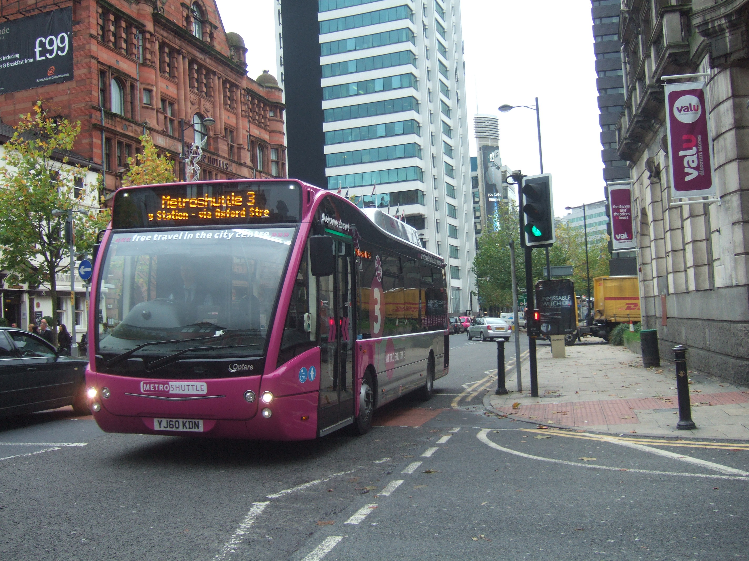 First Manchester YJ60 KDN, a brand new Optare Versa hybrid, seen on the free Manchester Metroshuttle service, in this case on route 3. These buses are owned by Greater Manchester PTE and loaned to First.